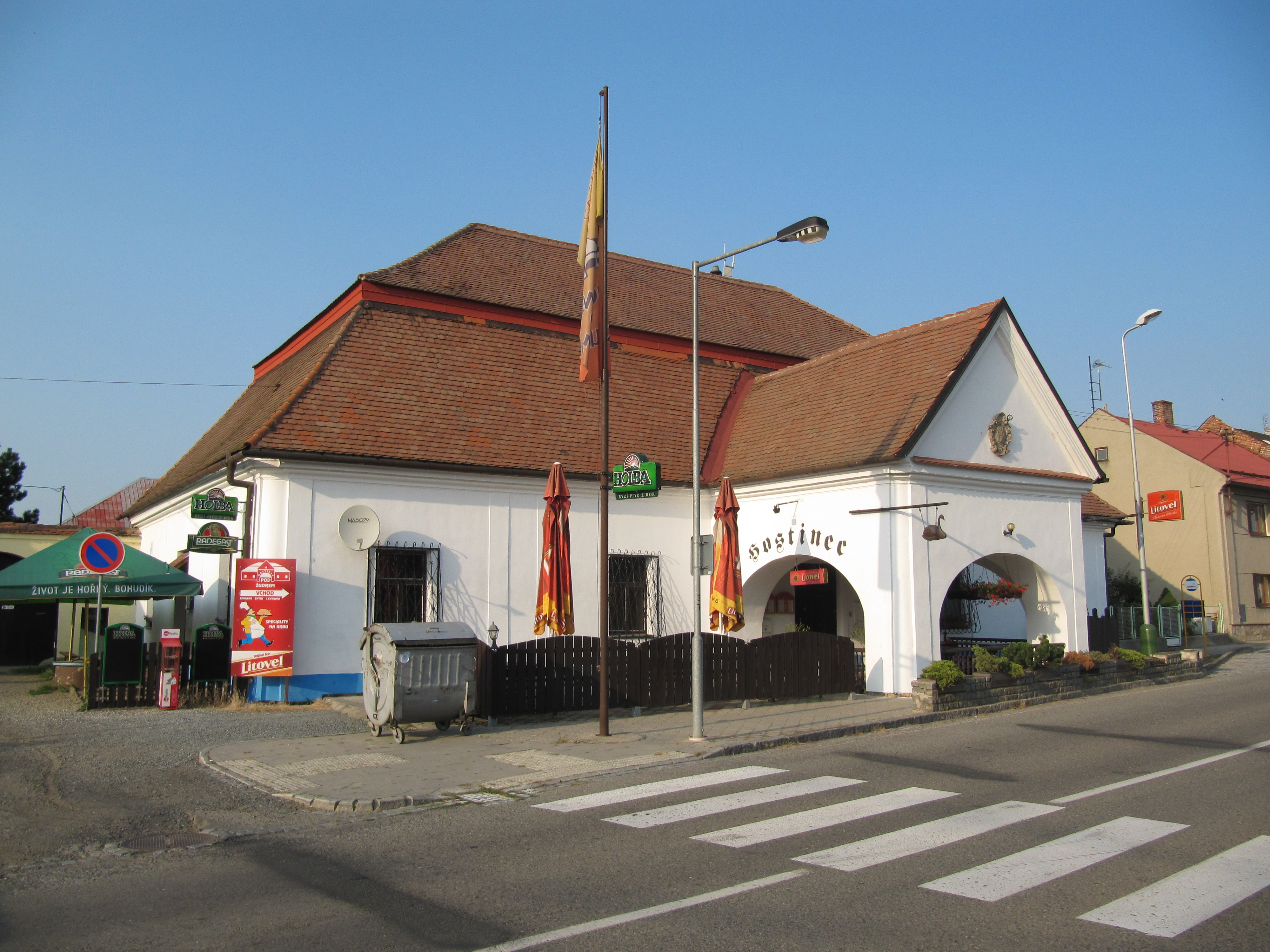 Ústín in Olomouc District, Czech Republic. House No. 46, the Baroque inn U Labutě with a typical porch of Haná.